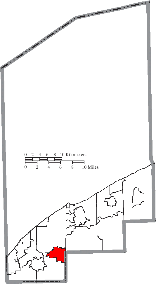 Map of the municipal and township boundaries of Lake County, Ohio, United States, as of the 2000 census, with the location of the village of Kirtland Hills highlighted. Township borders are shown only in unincorporated areas in order to differentiate incorporated and unincorporated areas more clearly.